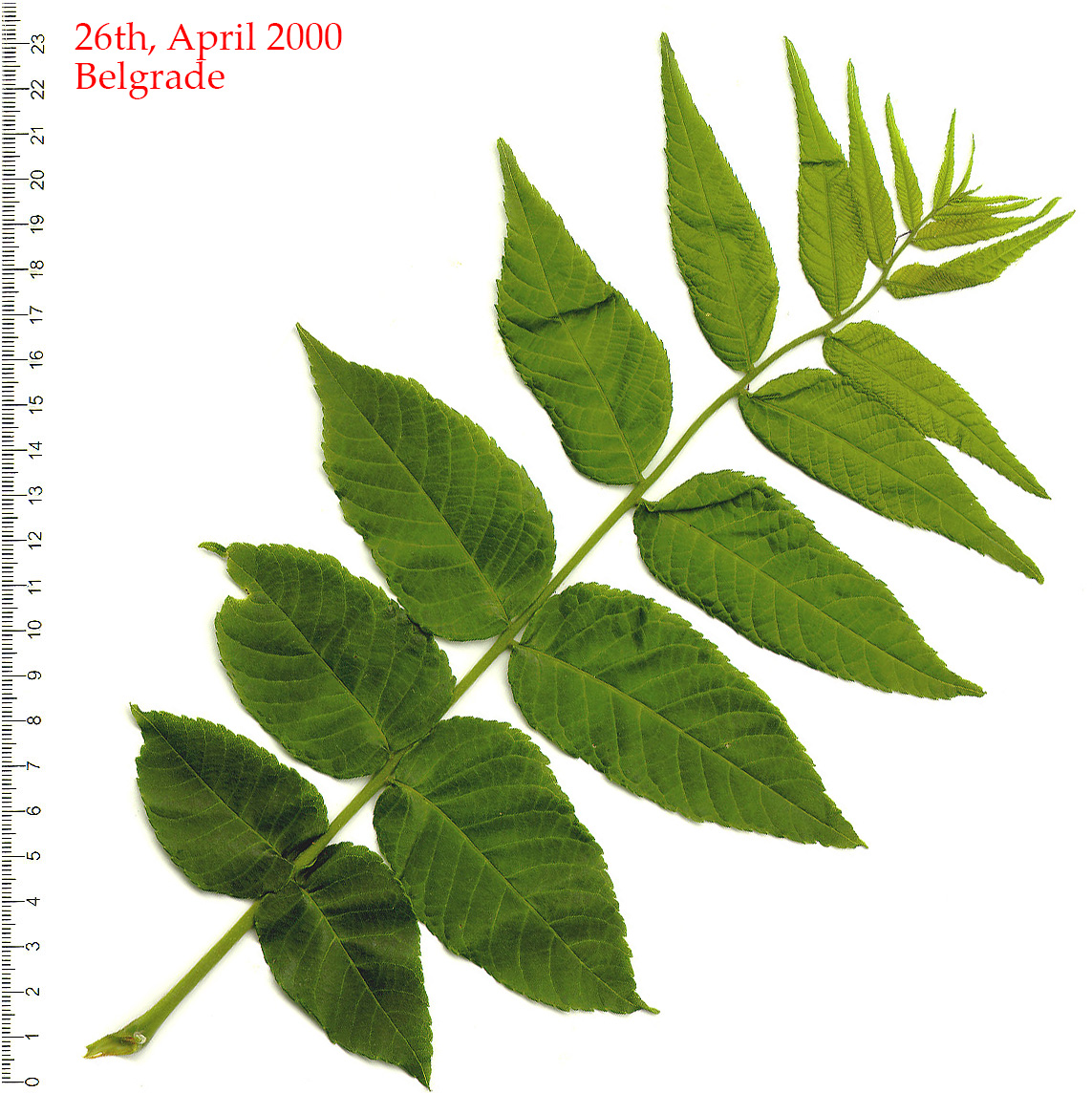 Black walnut leaf